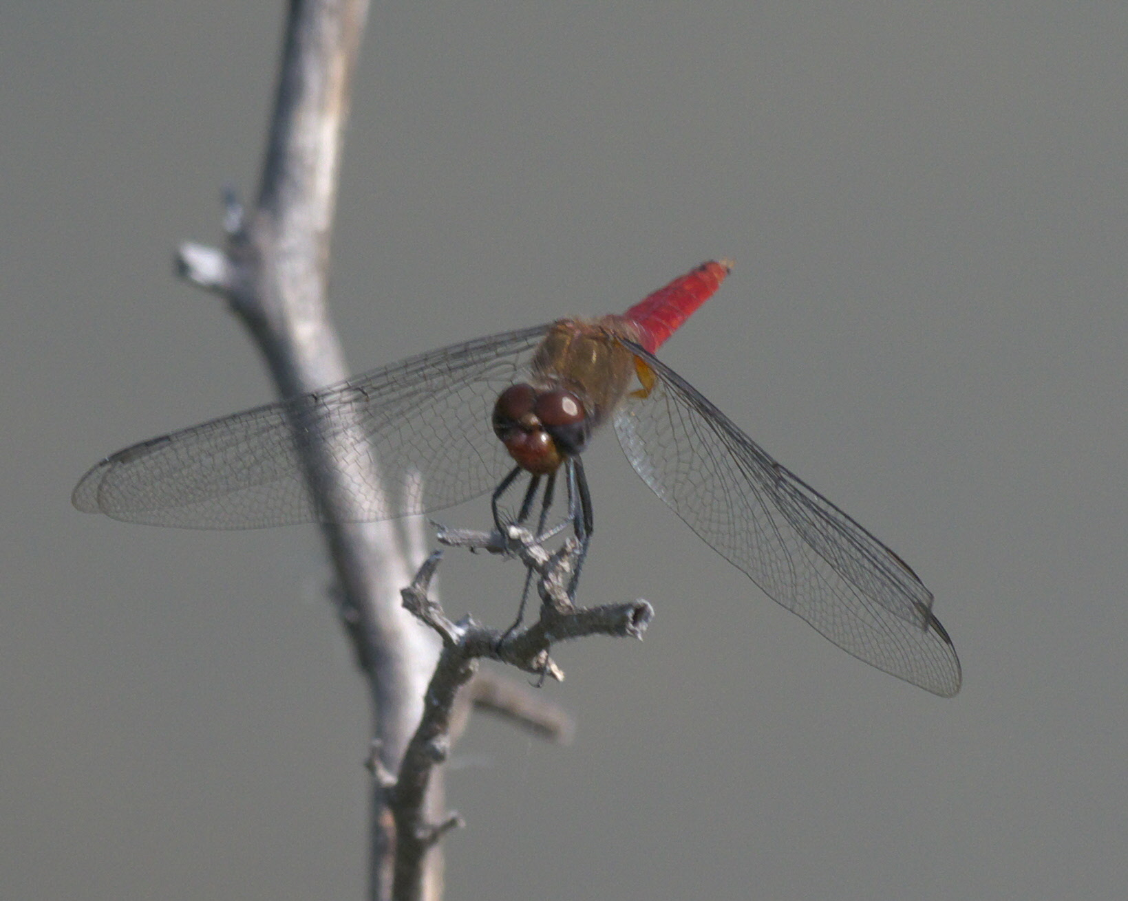 Brachymesia furcata, Red-tailed Pennant, ID Confidence: 98